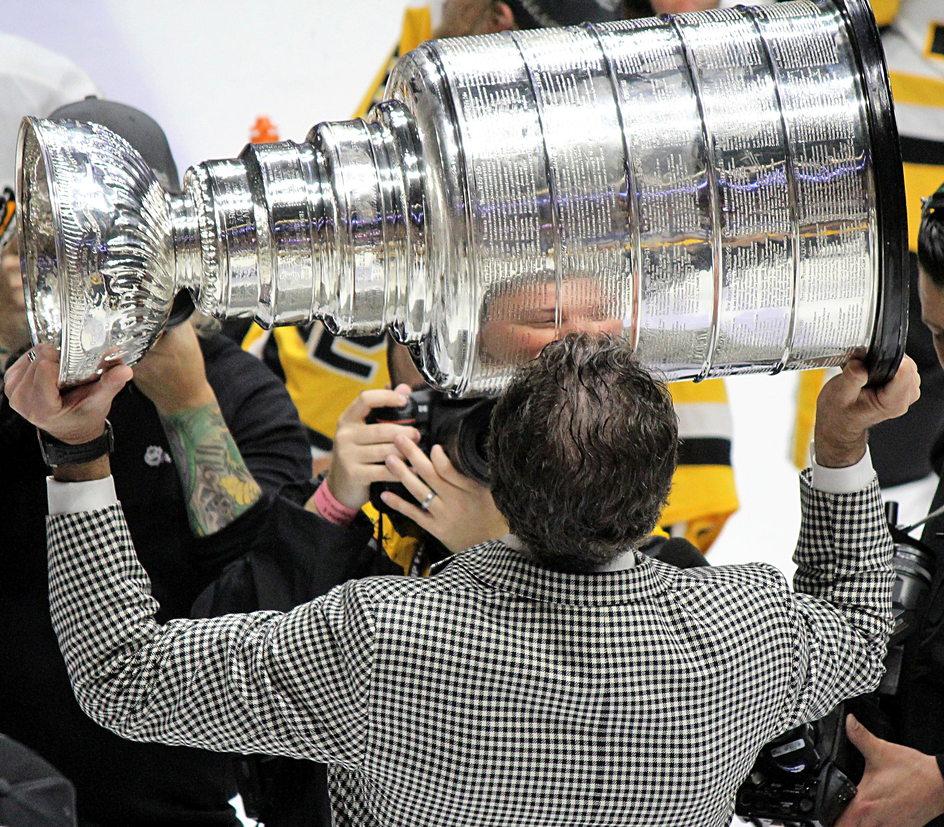 Pittsburgh Penguins co-owner Mario Lemieux celebrating the team's fifth Stanley Cup win, June 11, 2017, at Bridgestone Arena in Nashville, TN.